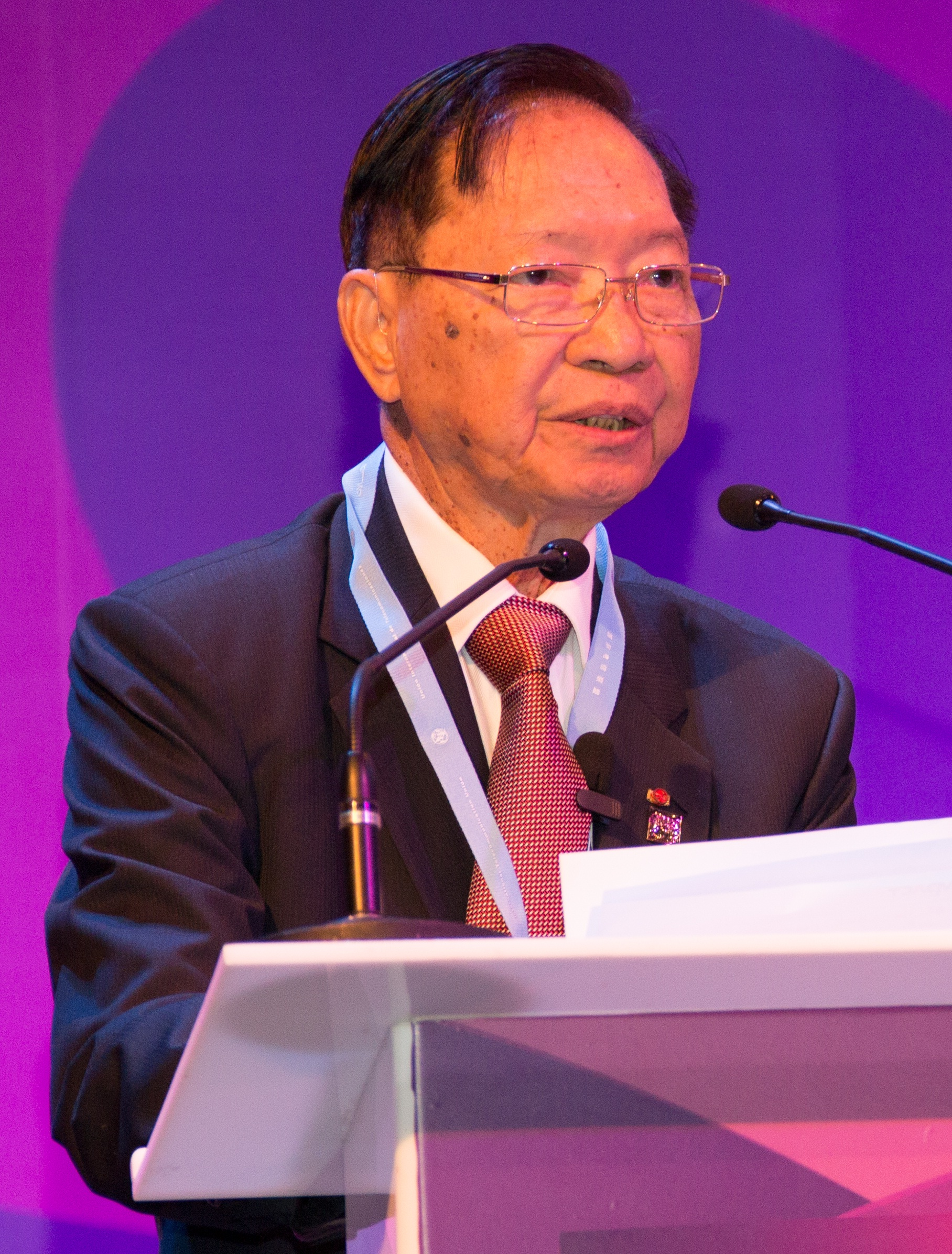 H.E. Mr. Keat Chhon Deputy Prime Minister Kingdom of Cambodia doing the key note address in the ENVISIONING ASIA-PACIFIC 2020 at the Connect Asia-Pacific 2013 Summit.